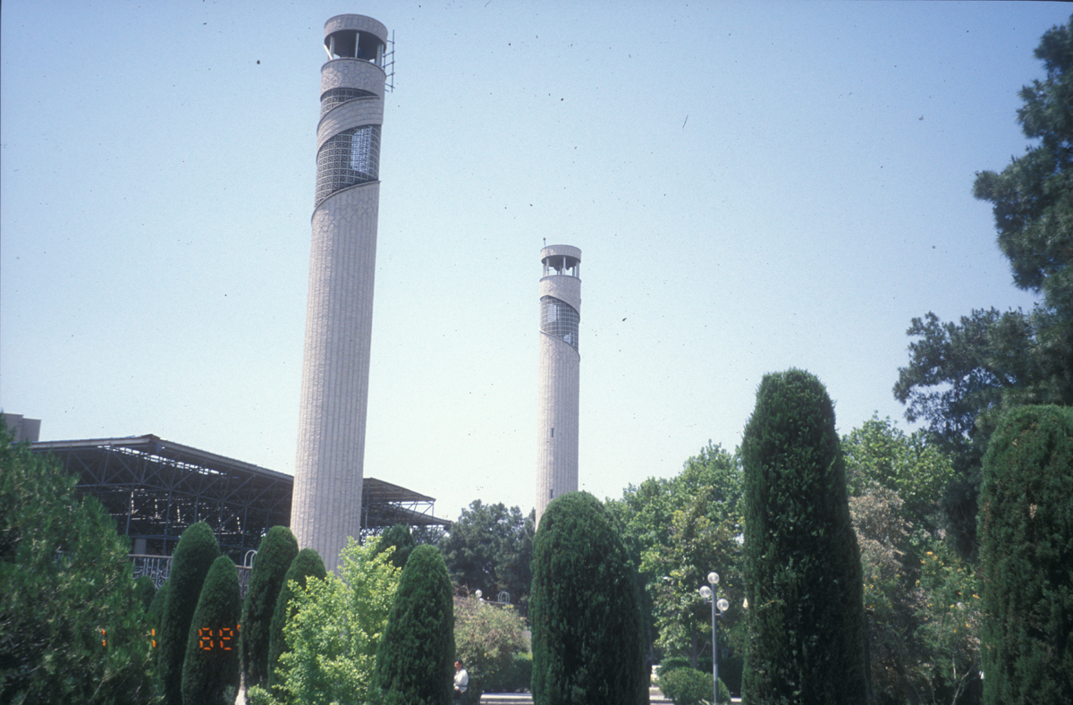 View of University of Tehran Mosque